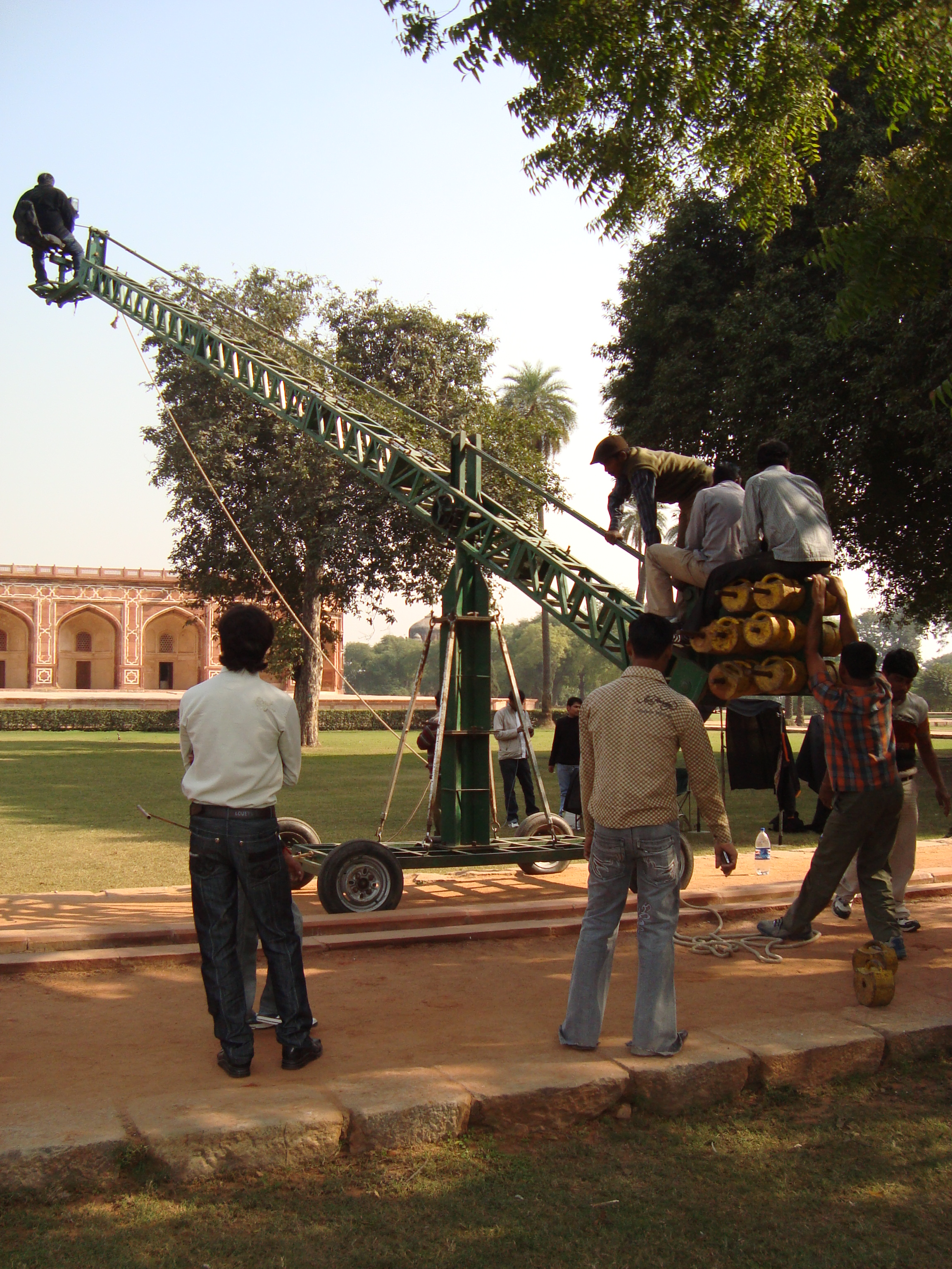 Filming using crane. Photo taken from Humayun's Tomb, New Delhi, India.